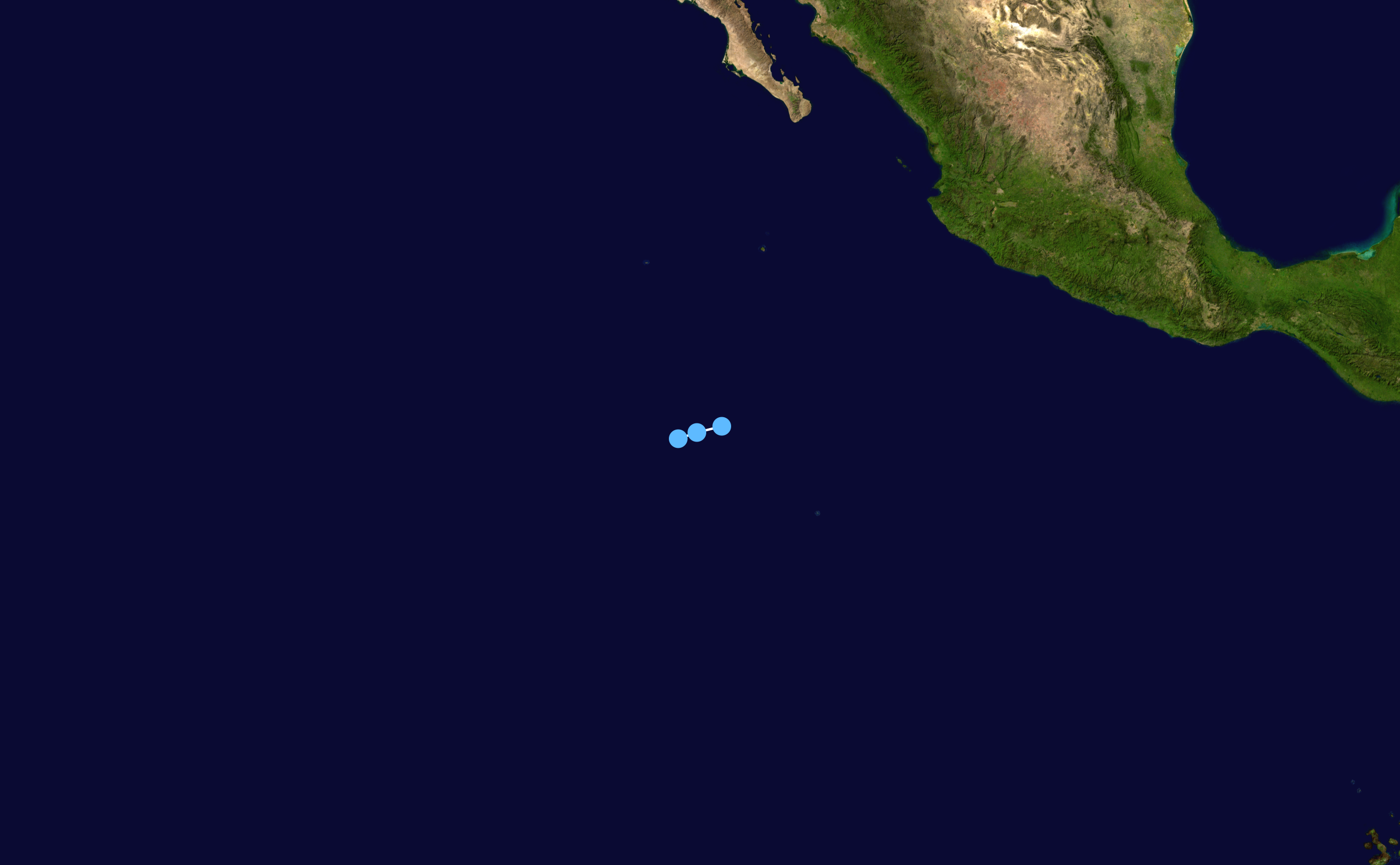 Track map of Tropical Depression Twenty-E of the 2006 Pacific hurricane season. The points show the location of the storm at 6-hour intervals. The colour represents the storm's maximum sustained wind speeds as classified in the Saffir–Simpson scale (see below), and the shape of the data points represent the nature of the storm, according to the legend below. Saffir–Simpson scale Tropical depression≤38 mph≤62 km/h Category 3111–129 mph178–208 km/h Tropical storm39–73 mph63–118 km/h Category 4130–156 mph209–251 km/h Category 174–95 mph119–153 km/h Category 5≥157 mph≥252 km/h Category 296–110 mph154–177 km/h Unknown Storm type Tropical cyclone Subtropical cyclone Extratropical cyclone / Remnant low / Tropical disturbance / Monsoon depression